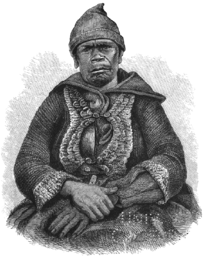 Illustration from The Last of the Tasmanians - Patty in Oyster Cove Holiday Costume. (Photographed by Dr. Nixon. Lord Bishop of Tasmania)